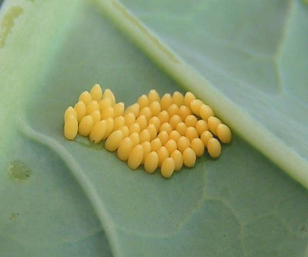 Eggs of the Large White butterfly. Photo by sannse, Clacton-on-Sea, Essex, 25 July 2004.